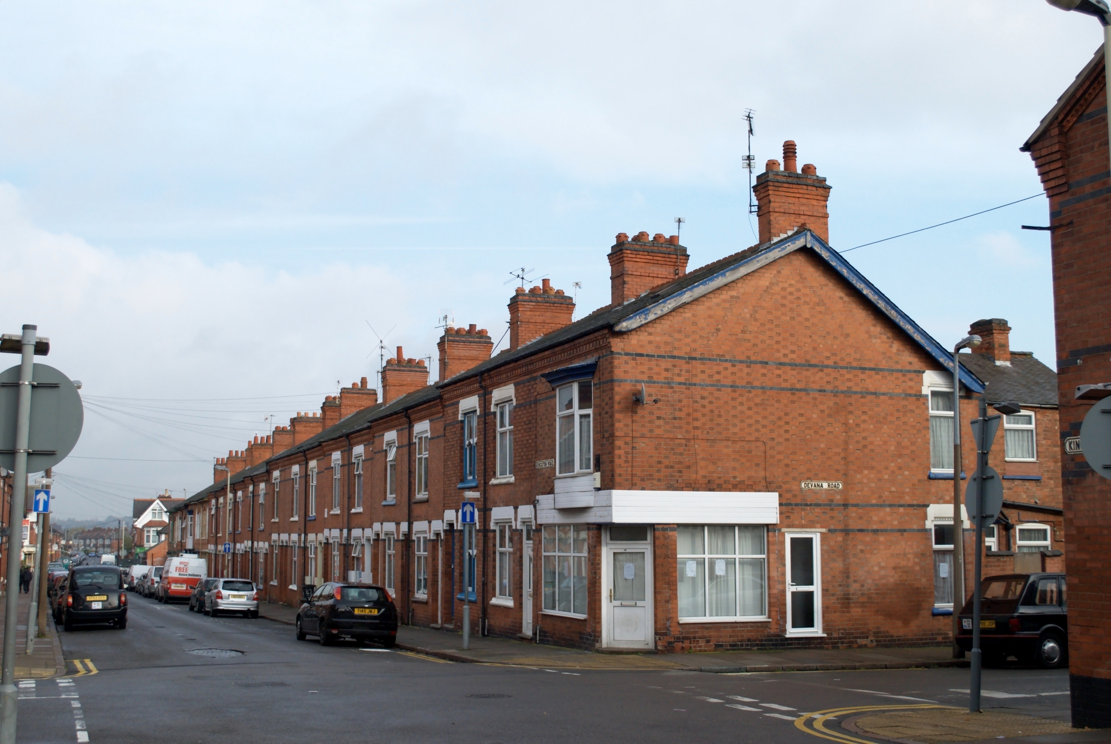 Terraced houses in Evington, Leicester, Devana Road is named after, and follows the approximate route of, the Via Devana (a Roman Road).